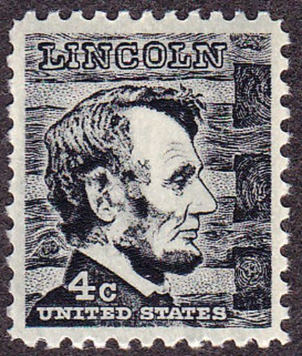 US Postage Stamp: Lincoln, 1965 Issue, 4c